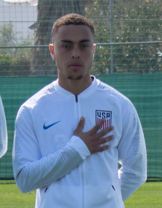 USA U20 v France U20, 22 March 2019